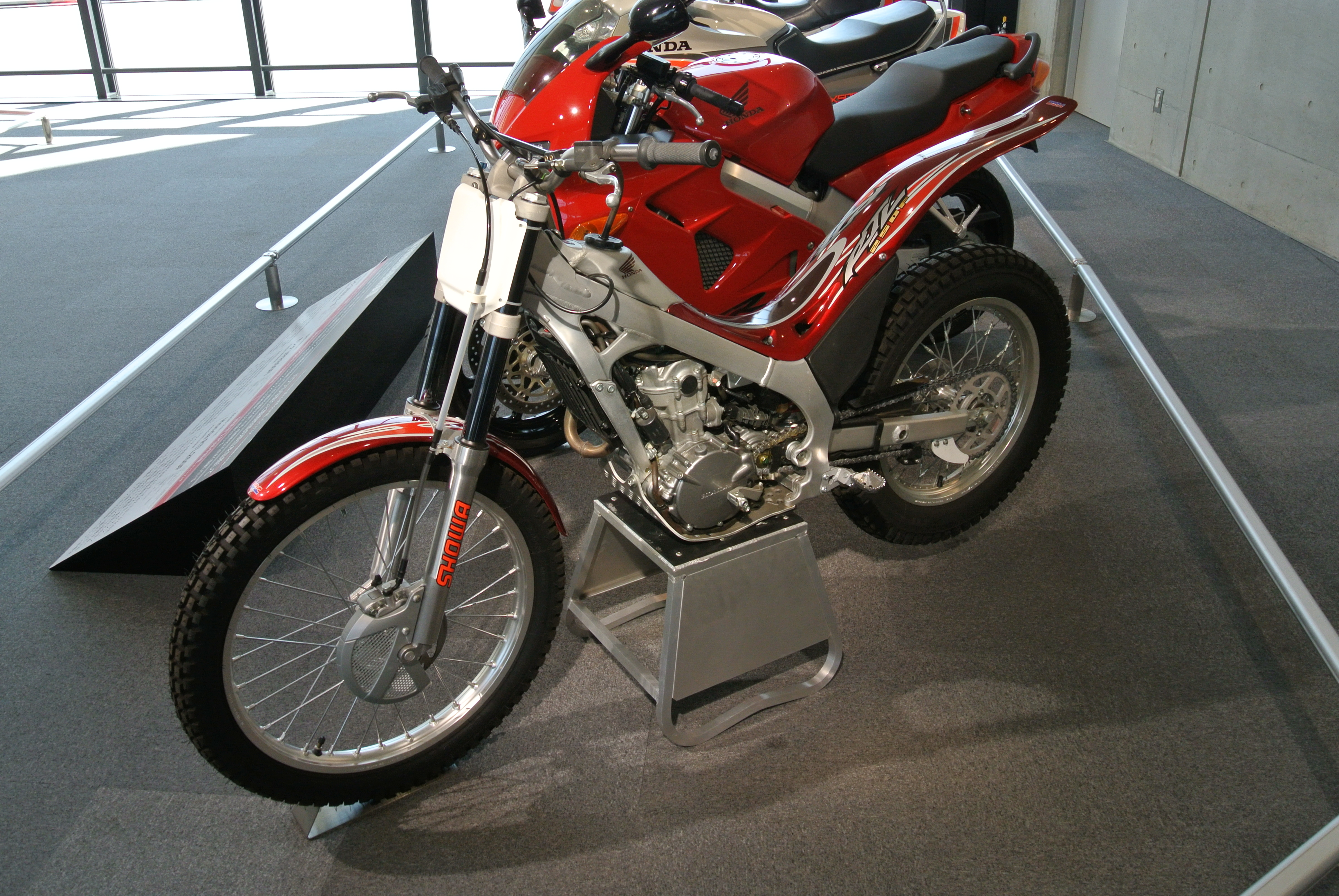 Honda RTL250F in the Honda Collection Hall.